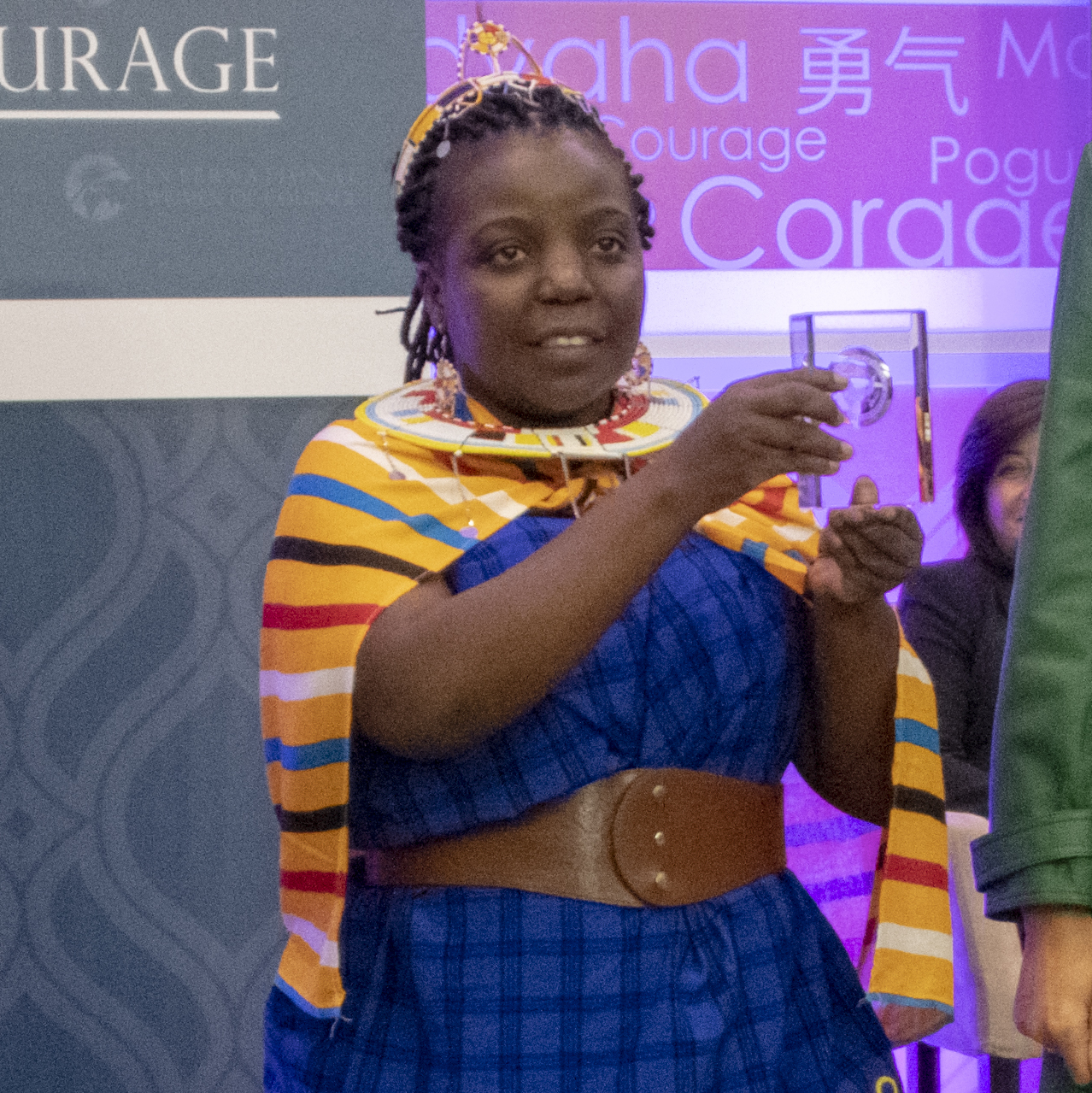 U.S. Secretary of State Michael R. Pompeo and First Lady of the United States Melania Trump present Anna Aloys Henga from Tanzania with the 2019 International Women of Courage (IWOC) Award during the ceremony at the U.S. Department of State in Washington, D.C., on March 7, 2019. [State Department photo by Ron Pryzsucha/ Public Domain]